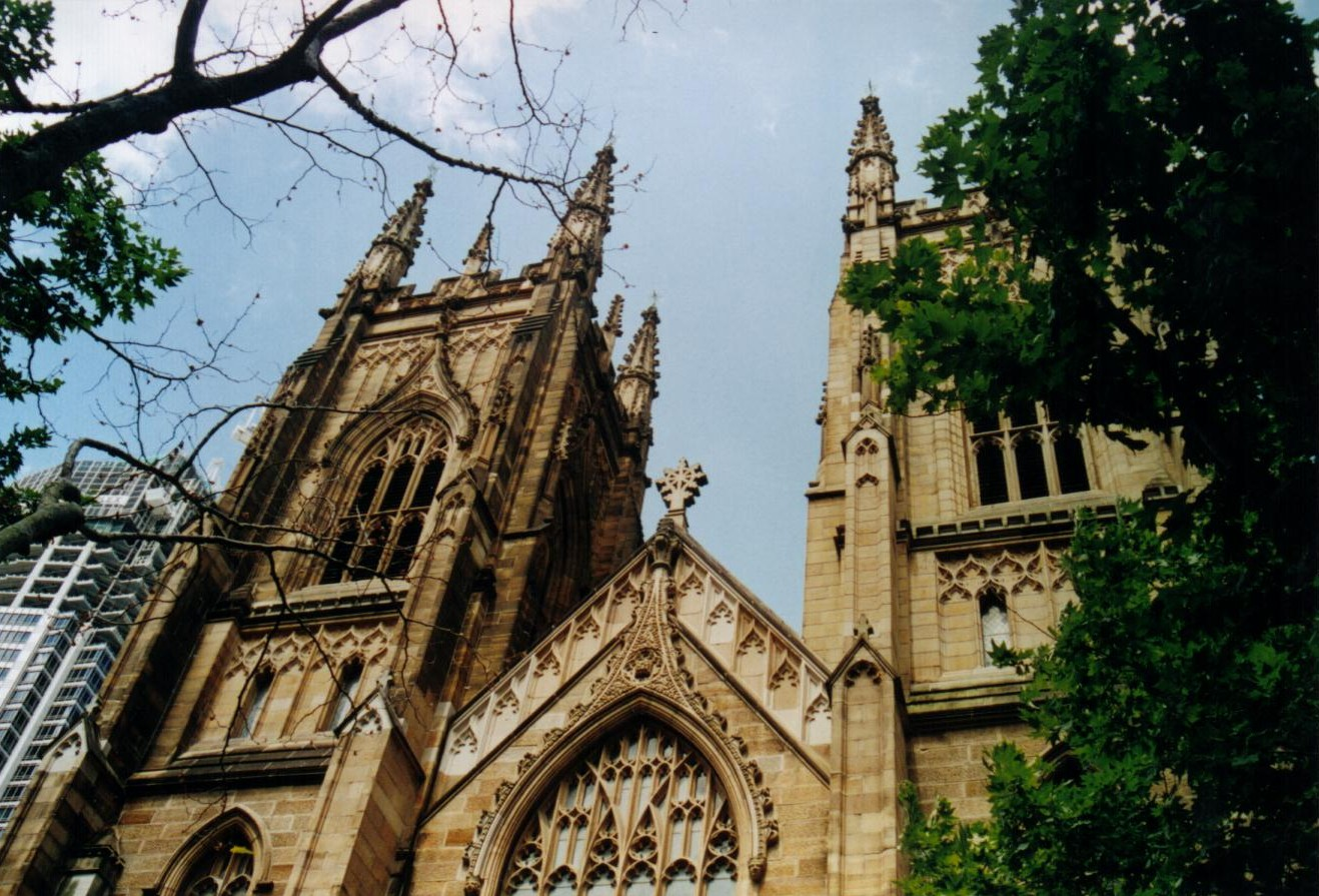 St. Andrew's Anglican Cathedral, arch. Edmund Blacket 1868, western towers